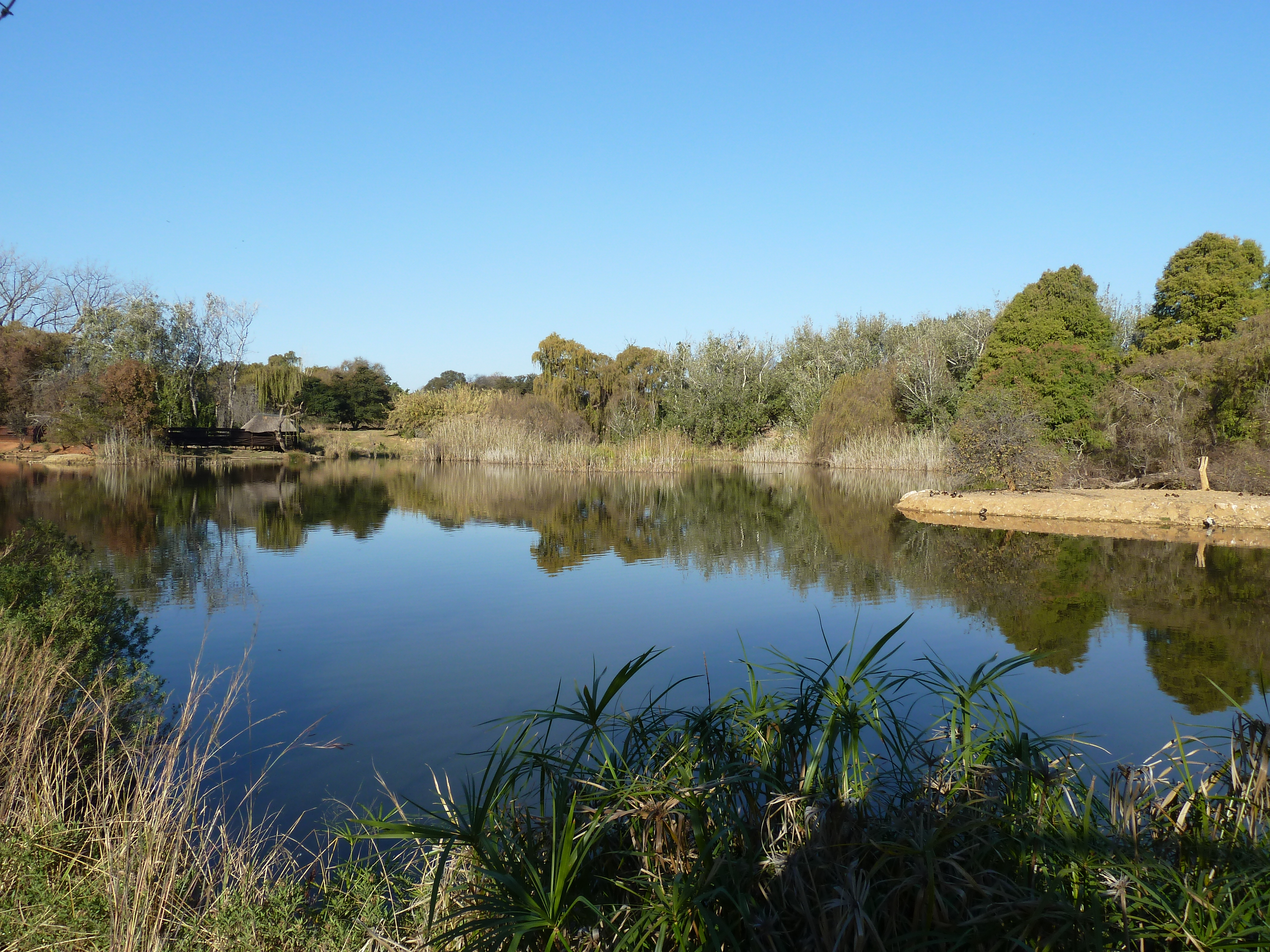 The reservoir in Walkerspruit, a former clay quarry for brickworks, and its overlooking hide at the Austin Roberts bird sanctuary in Nieuw Muckleneuk, Pretoria. The sanctuary was established in 1955.